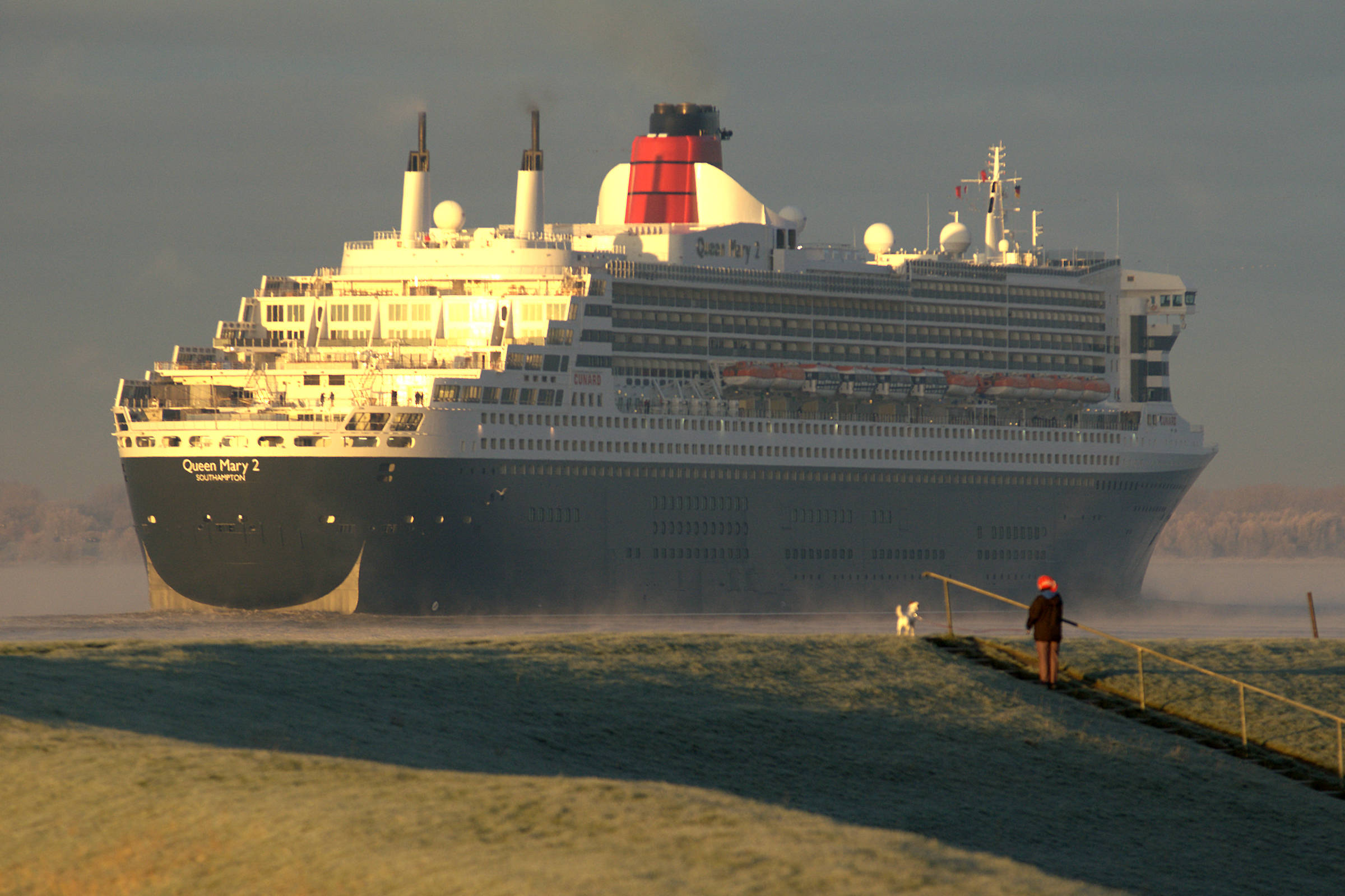 Cruise ship Queen Mary 2 on the River Elbe near Glückstadt.